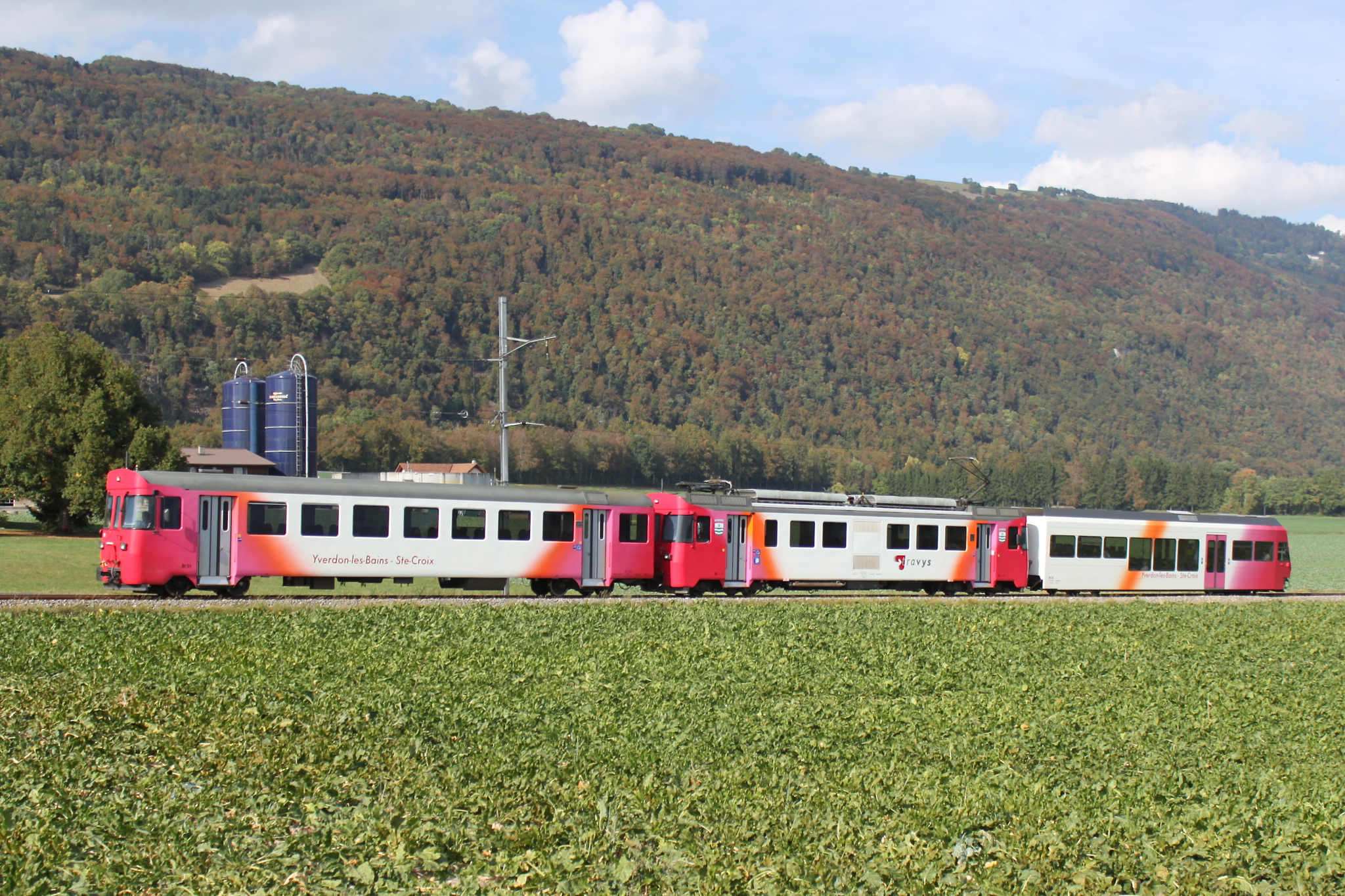 Passenger train from Yverdon-les-Bains to Ste-Croix consisting of YSteC Bt 51 driving trailer, Be 4/4 1 electric motor coach and Bt 55 driving trailer at Vuitebœuf.